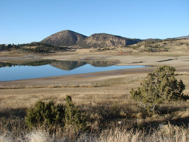 Very low reservoir level